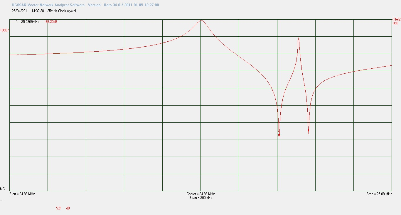 Clock crystal exhibiting spuiris respone (measured on network analyser).